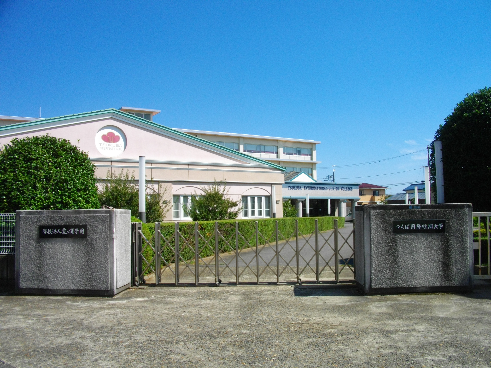 Tsukuba International Junior College